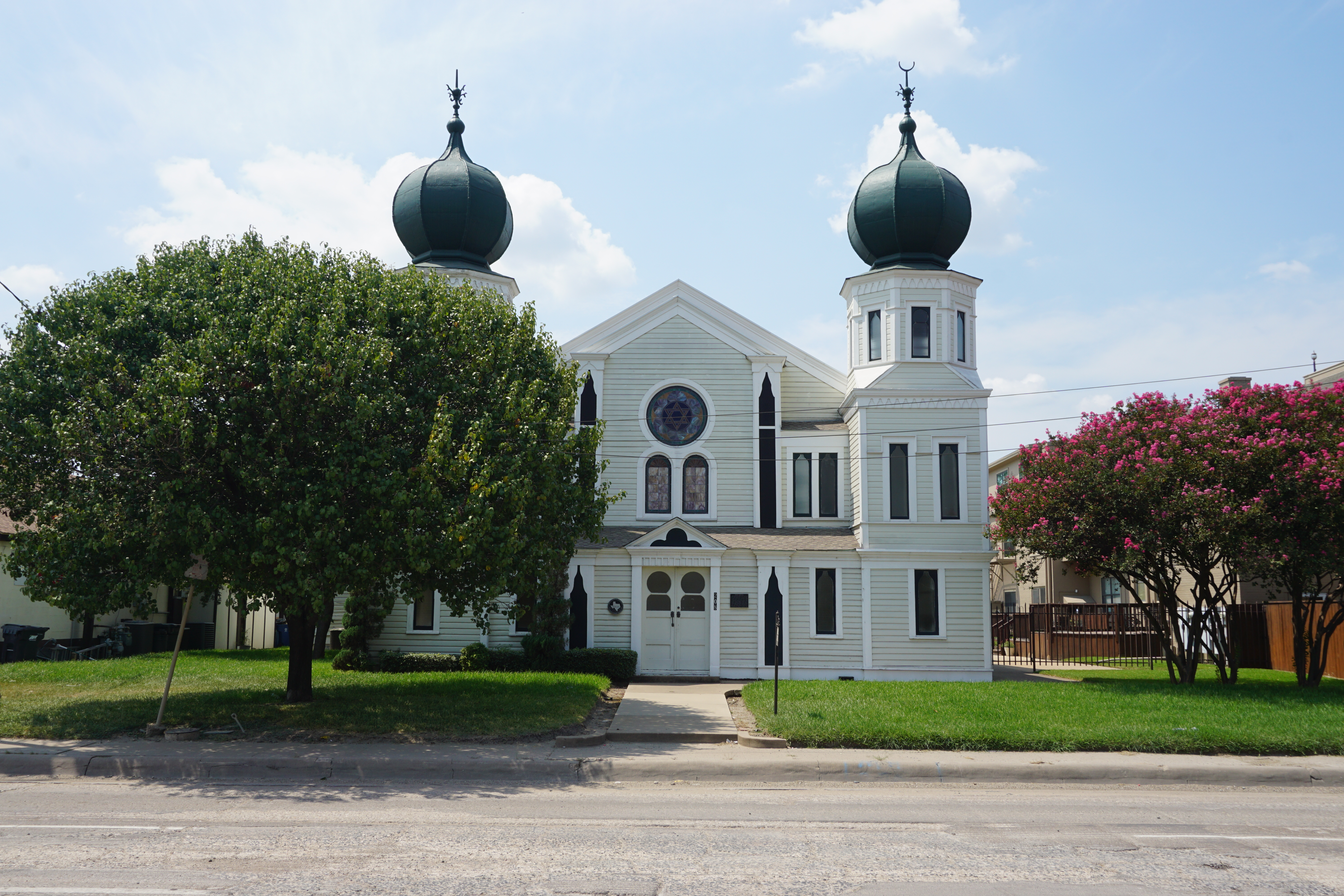 Temple Beth-El in Corsicana, Texas (United States).